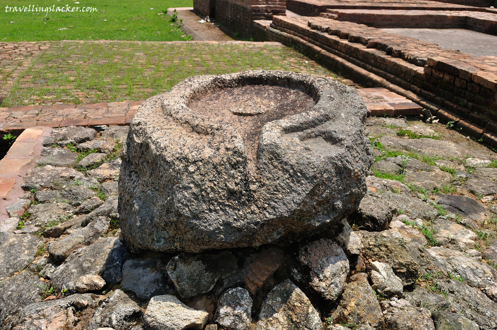 Sri Surya Pahar is an unique place in which three religions- hinduism, jainism and buddhism coexist. Reportedly there are 99,999 rock cut sivlings/stupas.